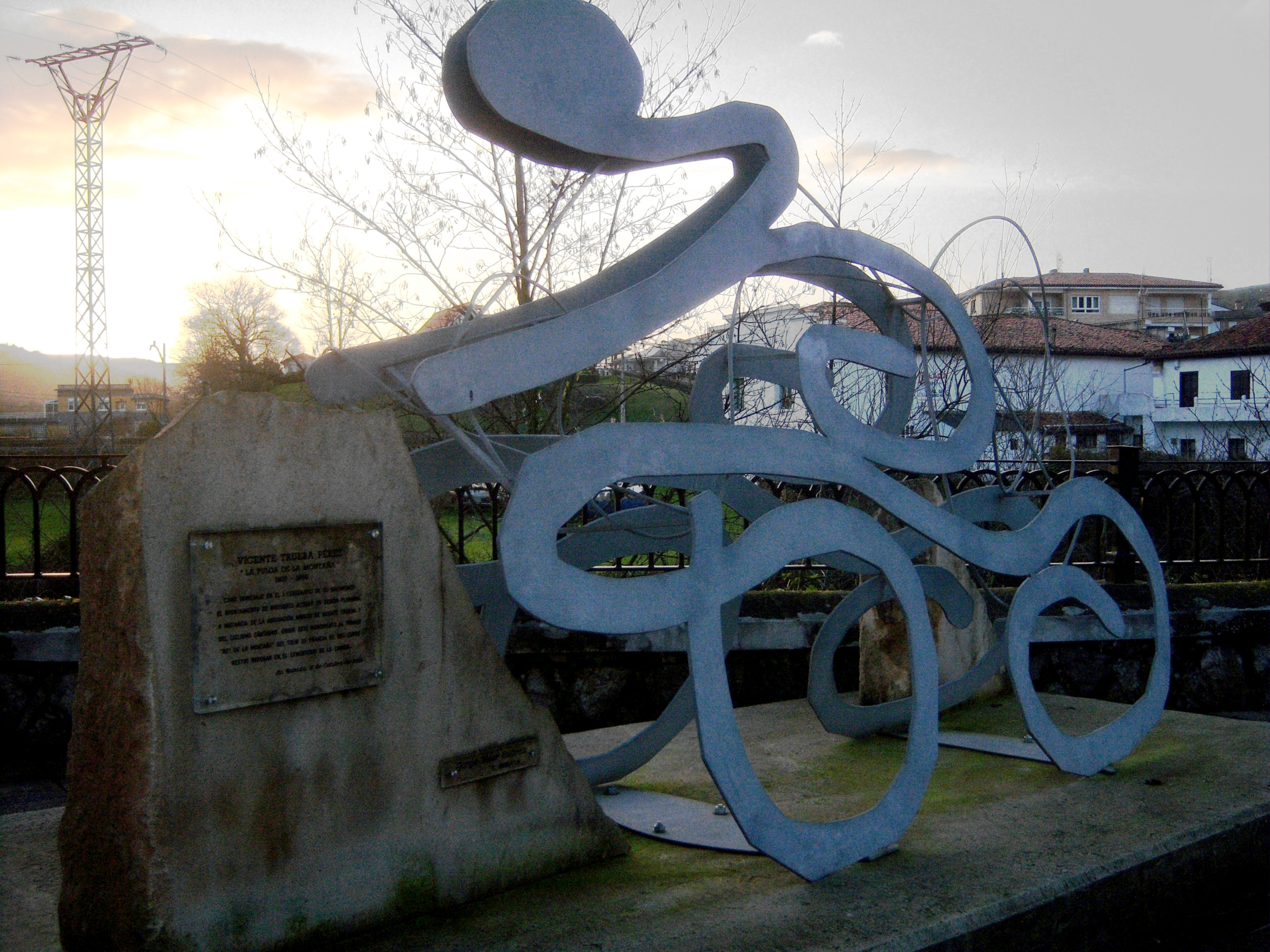 Monument to Vicente Trueba in La Cavada (Cantabria, Spain). The well-known cyclist is buried in the cemetery of this town.